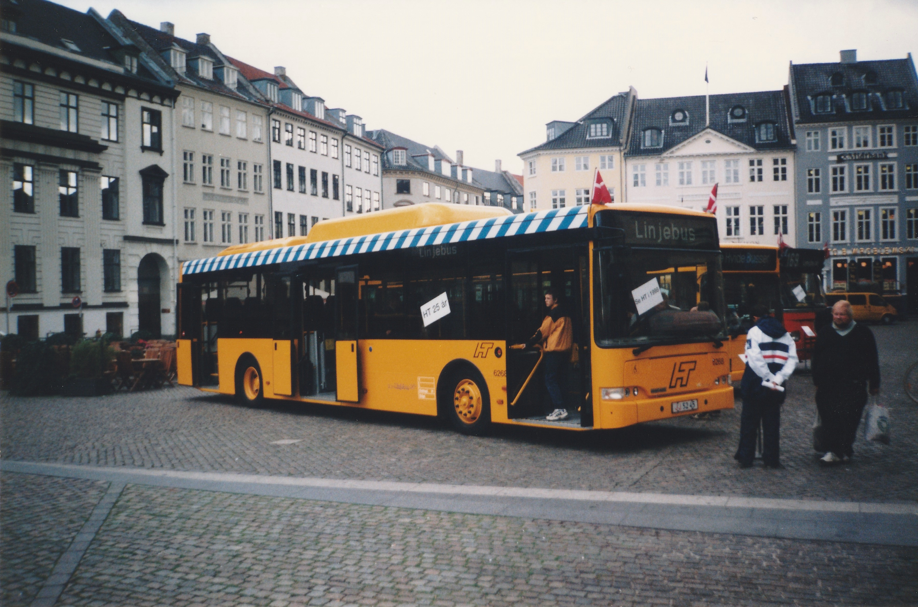 The transport authority Hovedstadsområdets Trafikselskab (HT) celebrated their 25th anniversary at Nytorv in Copenhagen. The new Linjebus 6868 from 1999 for line 350S.